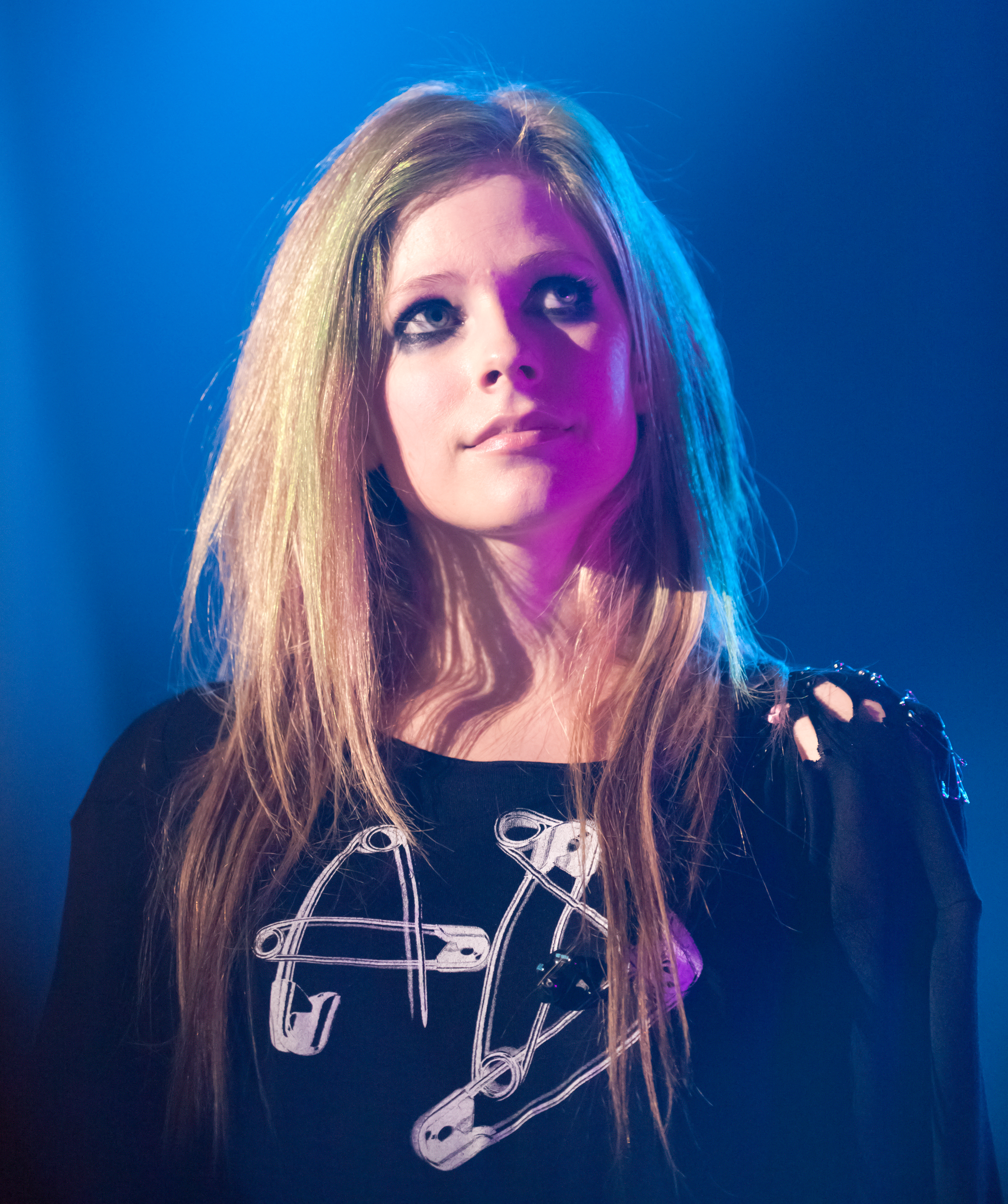 Avril Lavigne performing in Shanghai